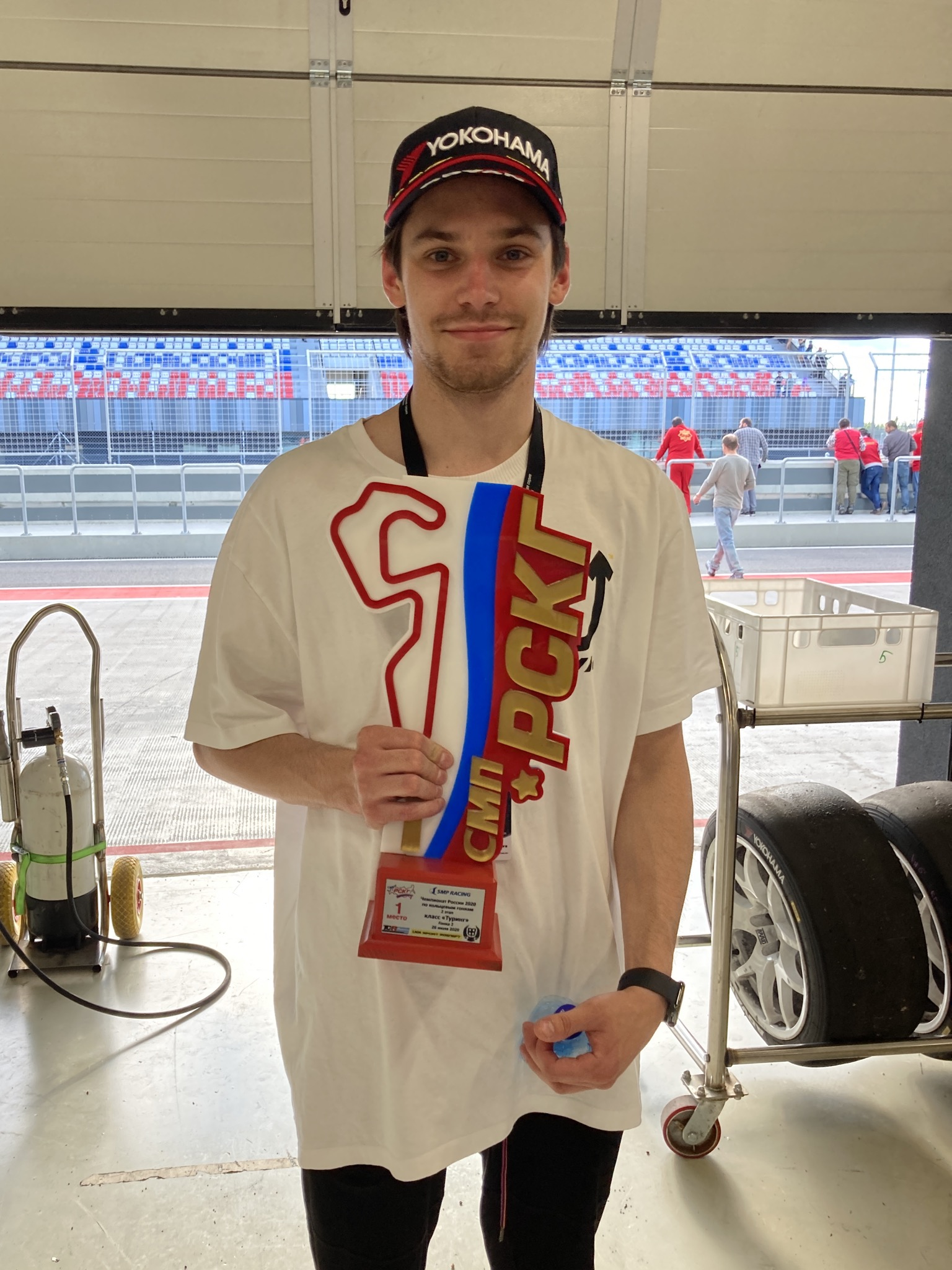 Russian racer Klim Gavrilov posing with his #1 trophy after winning a race at the Igora Autodrome in 2020